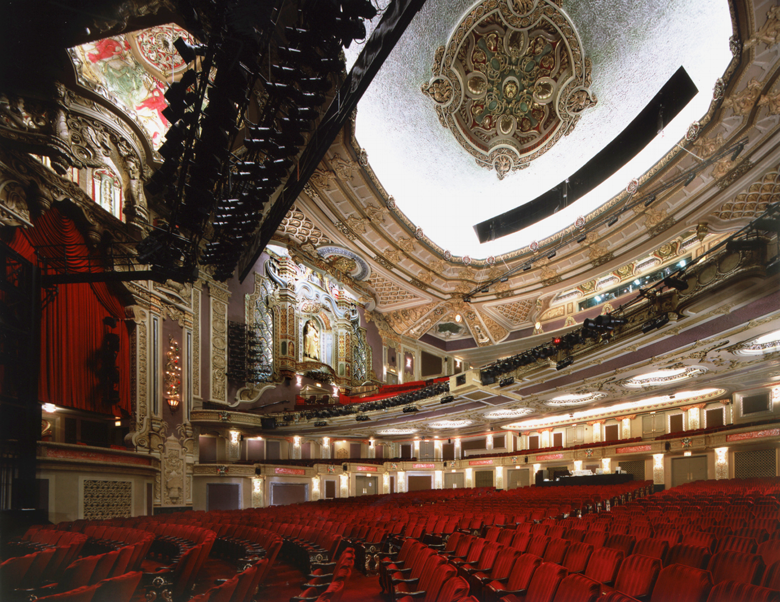 The interior of the Nederlander Theatre in Chicago